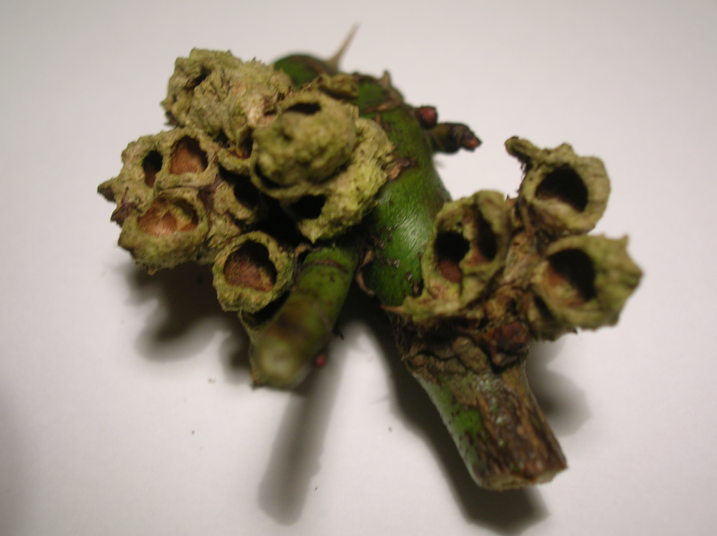 Moss, bedeguar or Robin's pincushion gall on Dog Rose